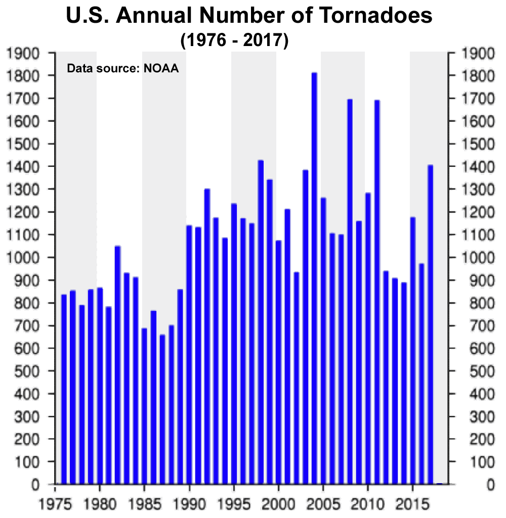 U. S. Tornado Counts 1976-2011 ; based on: NOAA National Climatic Data Center, State of the Climate: Tornadoes for Annual 2011, published online December 2011 ; from: ; ; Data before 1976 is not accurate and was removed